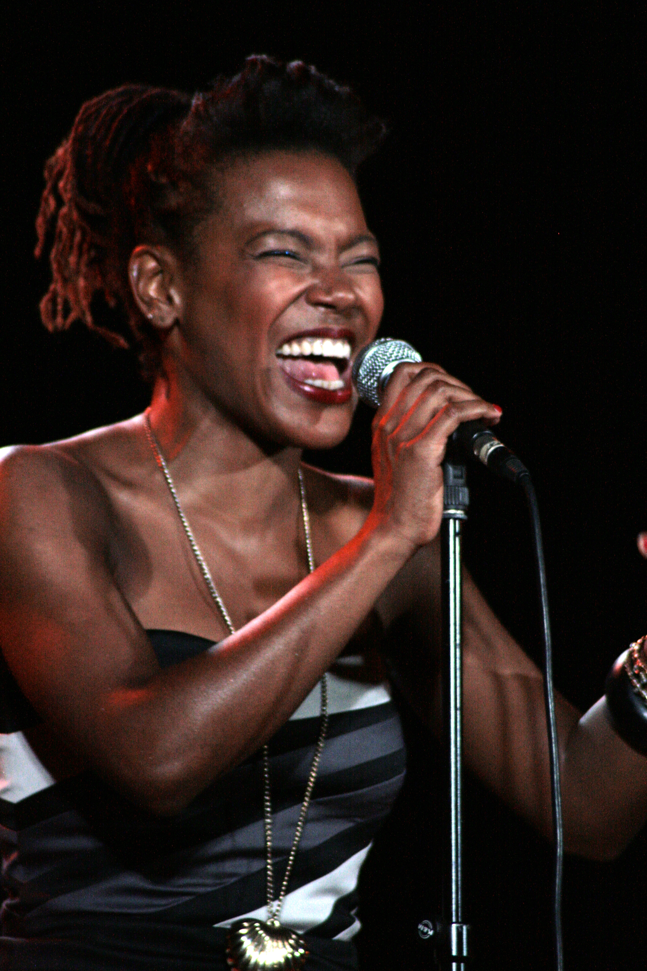 China Moses singing at Orange's jazz festival in France.